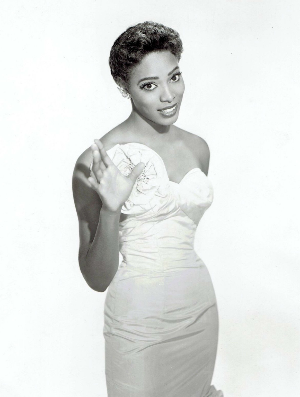 Photo of vocalist Ketty Lester from 1958.